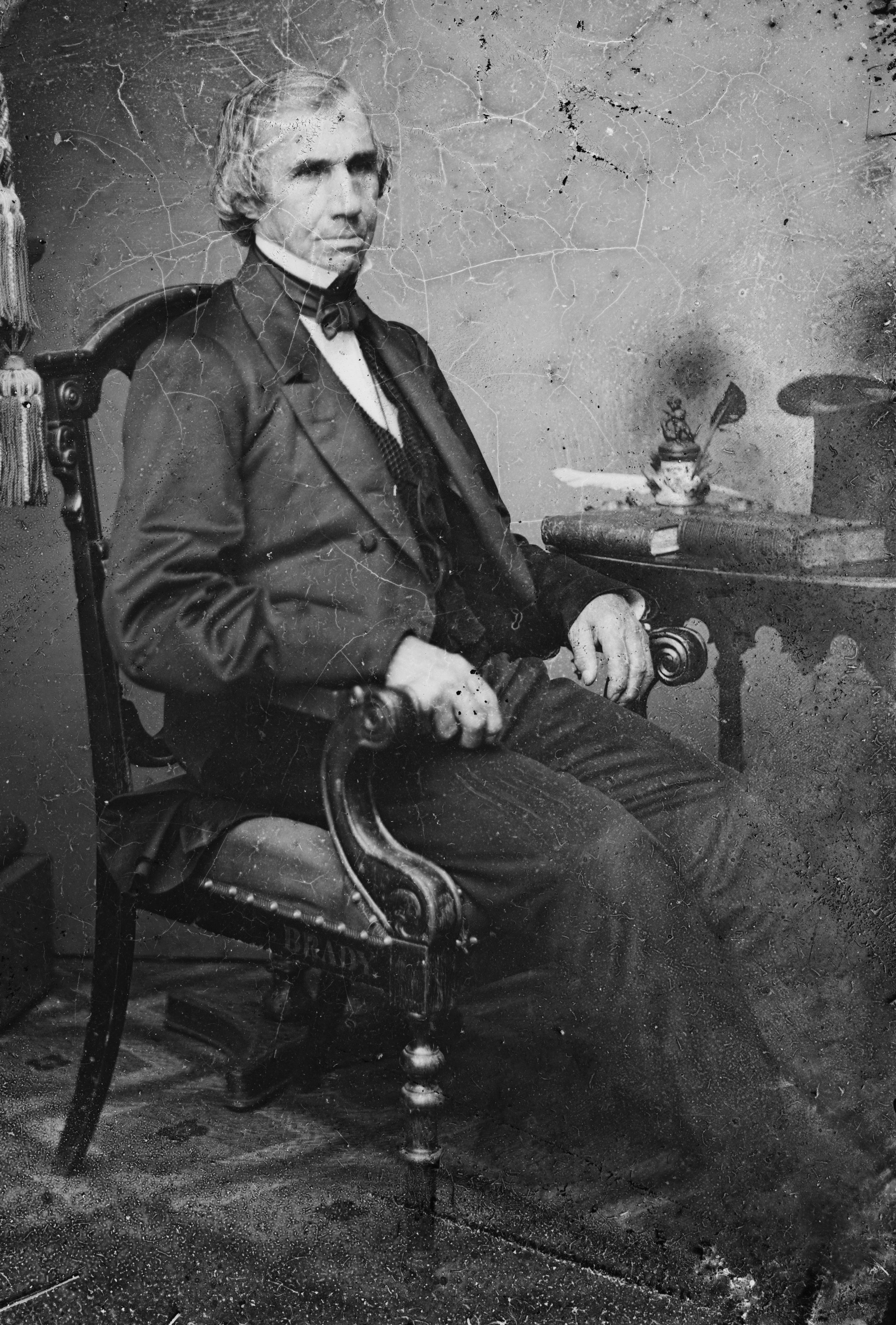 Elijah Babbitt. Library of Congress description: "Hon. Elijah Babbitt of Pa."